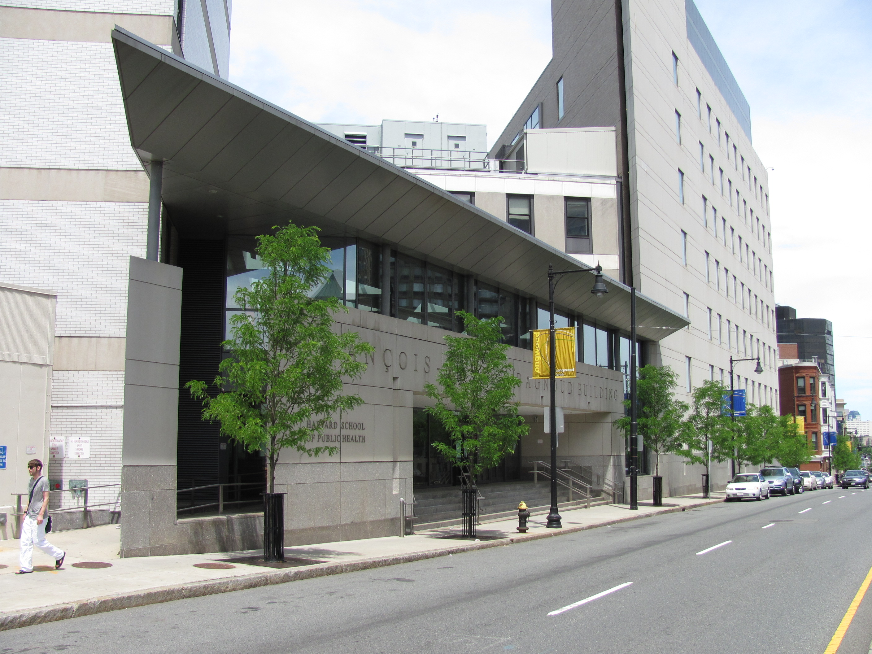 Harvard School of Public Health, Boston Massachusetts